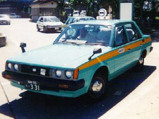 1982-1987 Toyota Corona (T140)